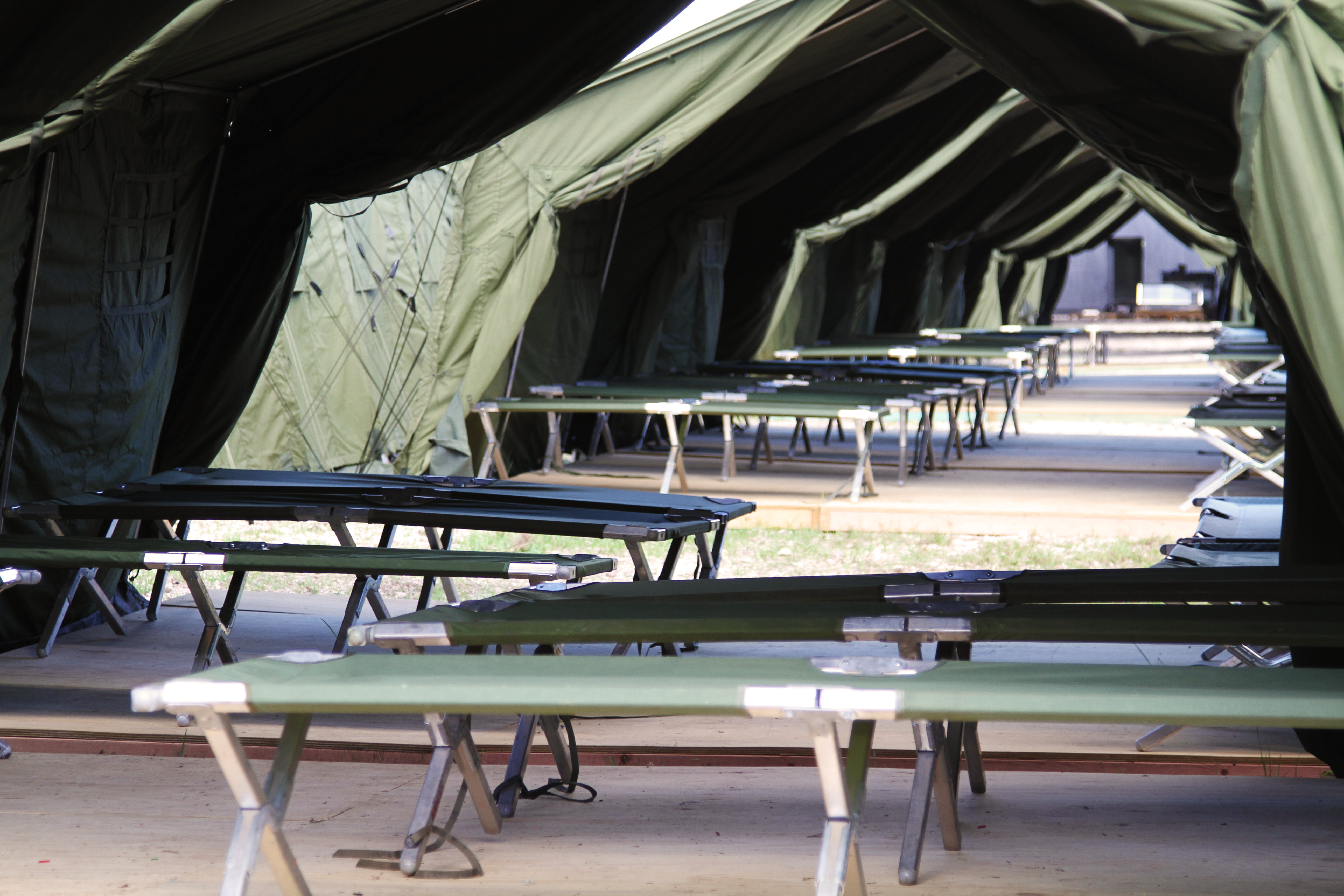 Accommodation in the Nauru offshore processing facility.